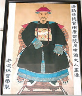 Zhou Youde was a seventeenth-century Chinese official. This is a depiction of him from a Guangdong temple built in his honour. The exact date of creation cannot be properly ascertained but it is definitely old enough to be in the public domain.